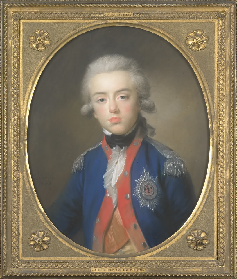 Portrait of Prince Frederick of Orange-Nassau (1774-1799)